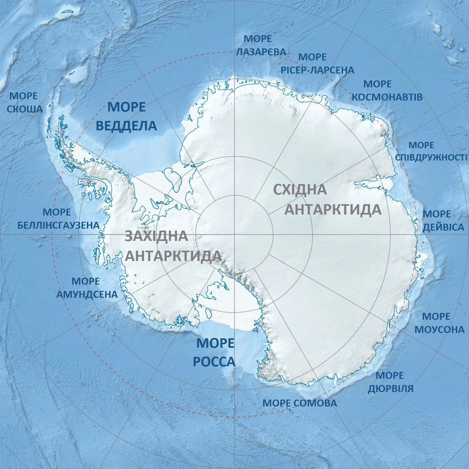 Seas of Southern Ocean (in Ukrainian)